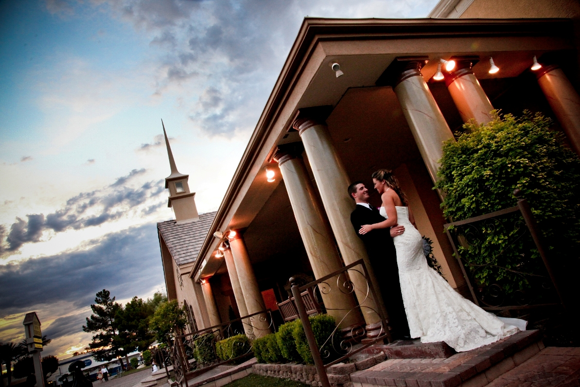 Property landscape at Chapel of the Flowers